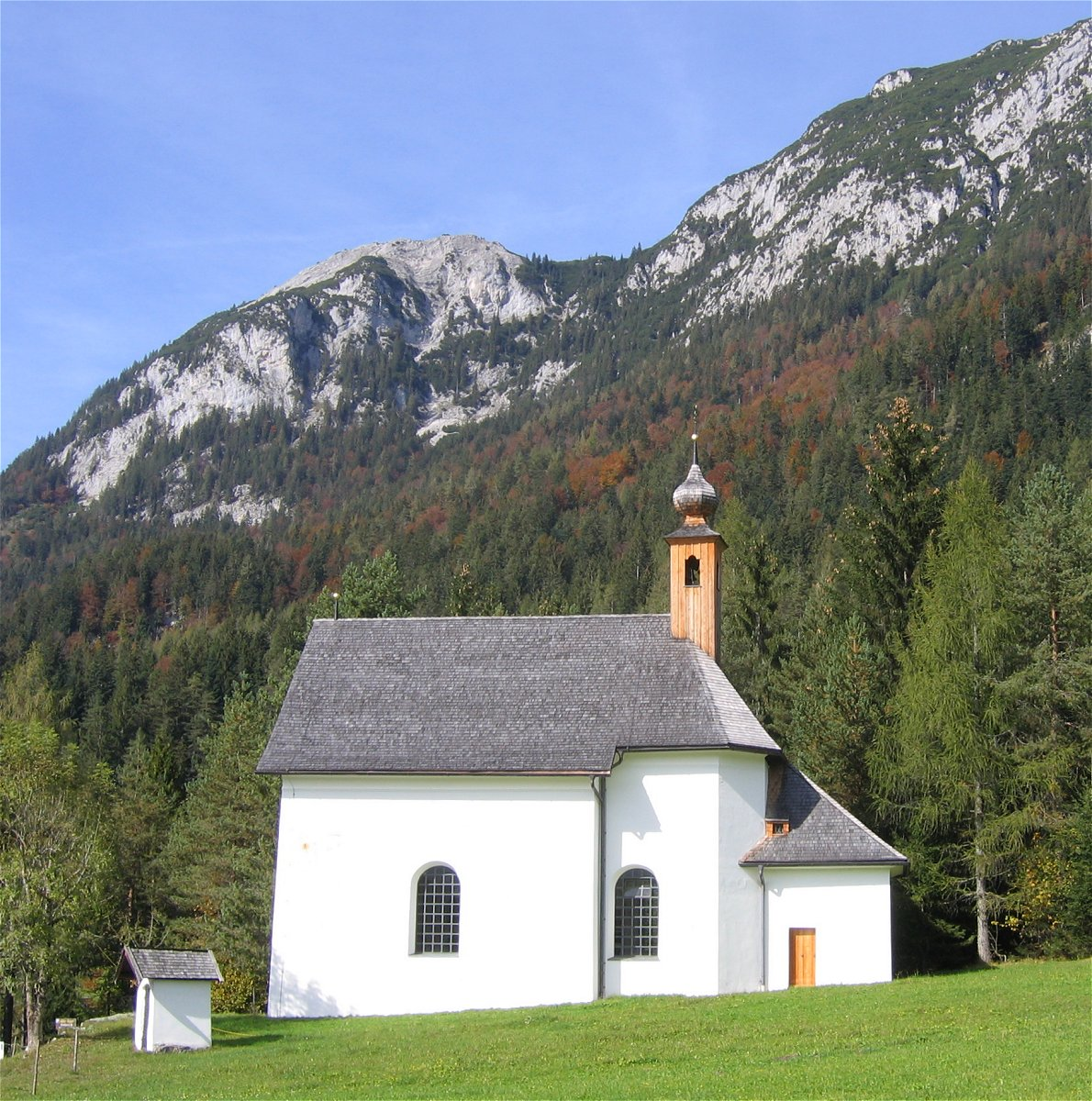 Bärnstattkapelle bei Scheffau am Wilden Kaiser This media shows the remarkable cultural object in the Austrian state of Tyrol listed by the Tyrolean Art Cadastre with the ID 4103. (on tirisMaps, pdf, more images on Commons, Wikidata)